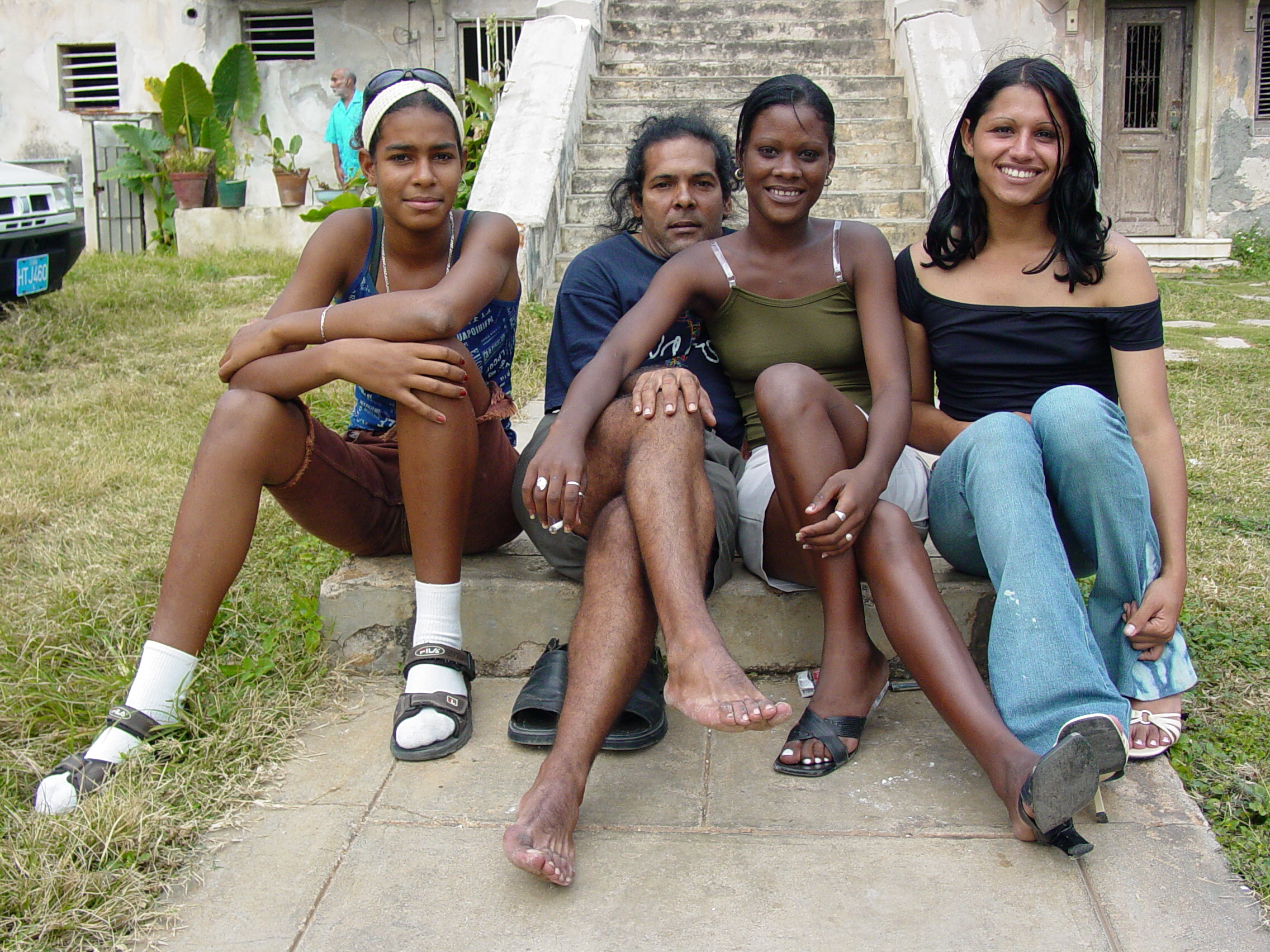 Young people in Miramar, Havana, Cuba. December 2002.